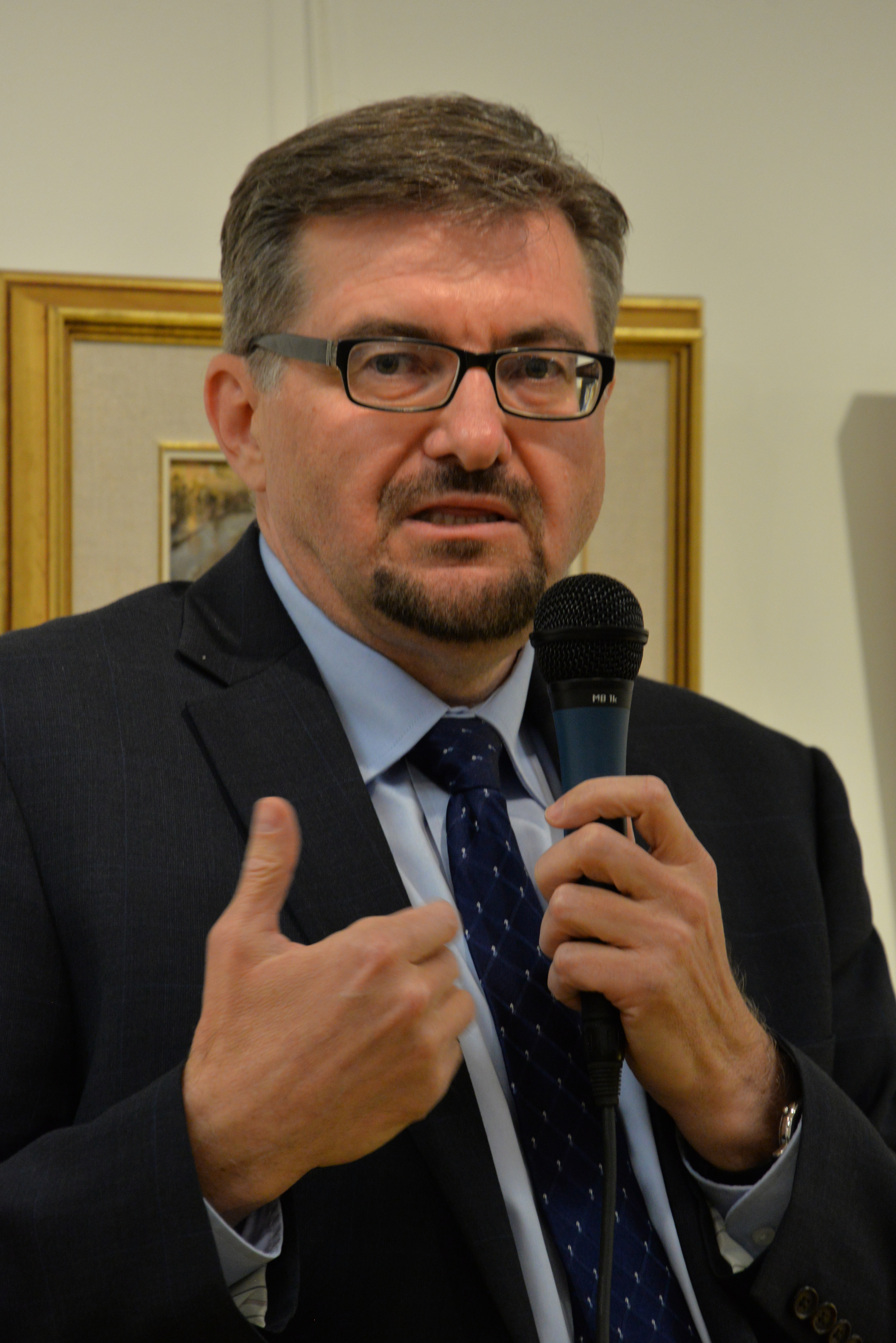 Historian Serhii Plokhy during the presentation of his award-winning book "The Last Empire: The Final Days of the Soviet Union" on the Shevchenko Scientific Society (Toronto) in the KUMF Gallery on April 20, 2015